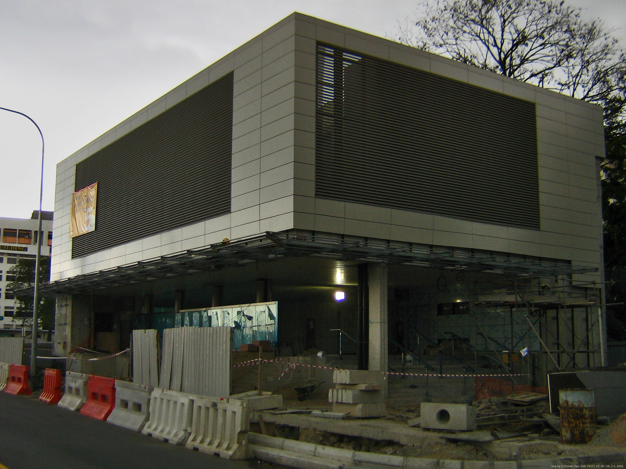 Exterior of CC11 Tai Seng Station